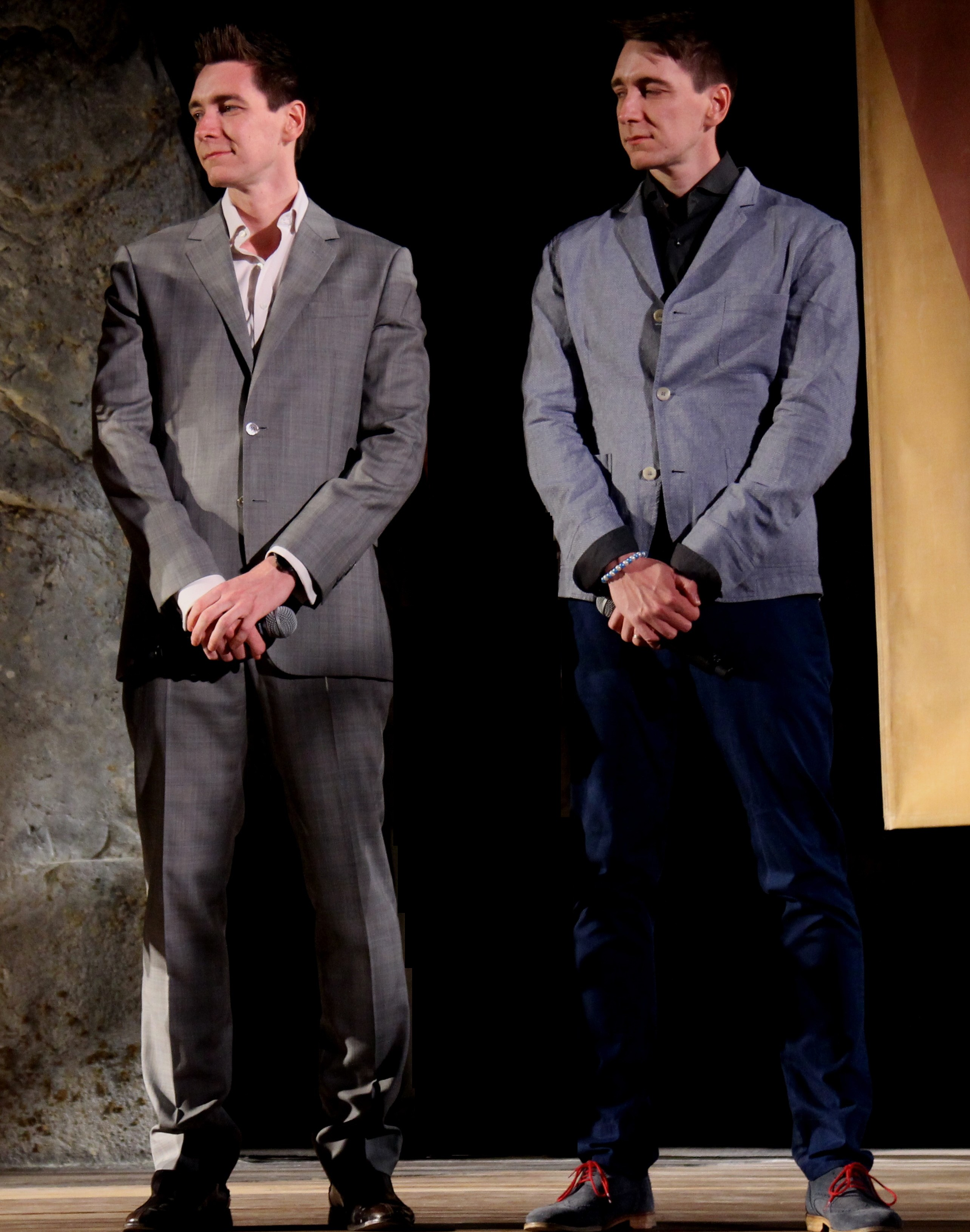 James et Oliver Phelps, Universal Studios Hollywood, April 2016.